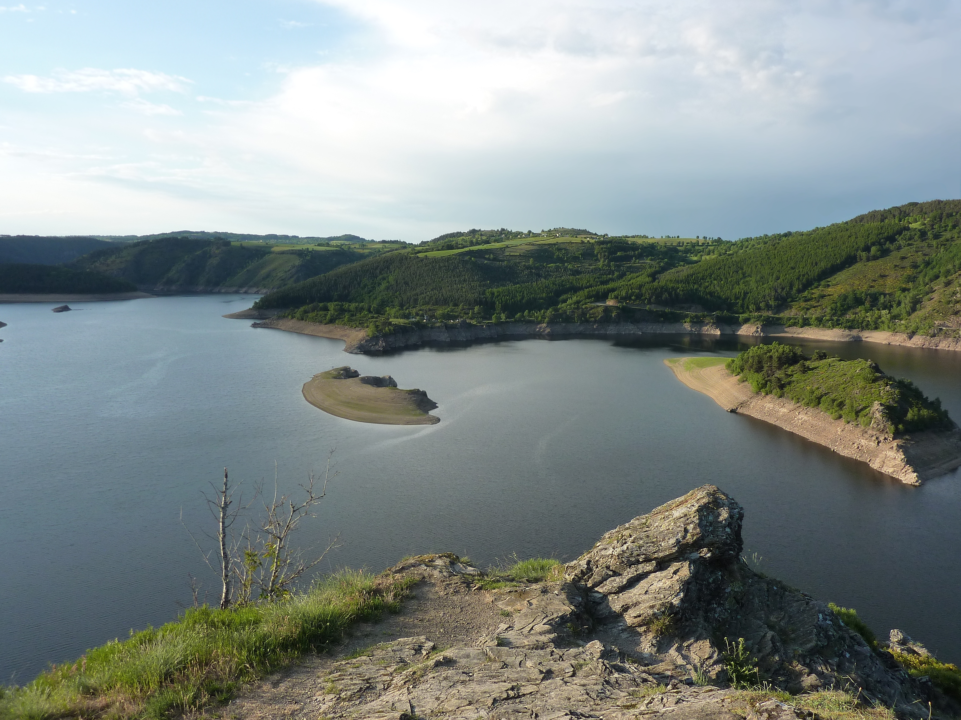 Lac de Grandval, Truyère river, Cantal, France